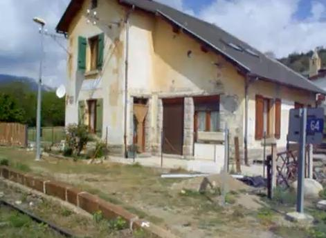 Train station of Bena-Feners, in the French commune of Enveitg